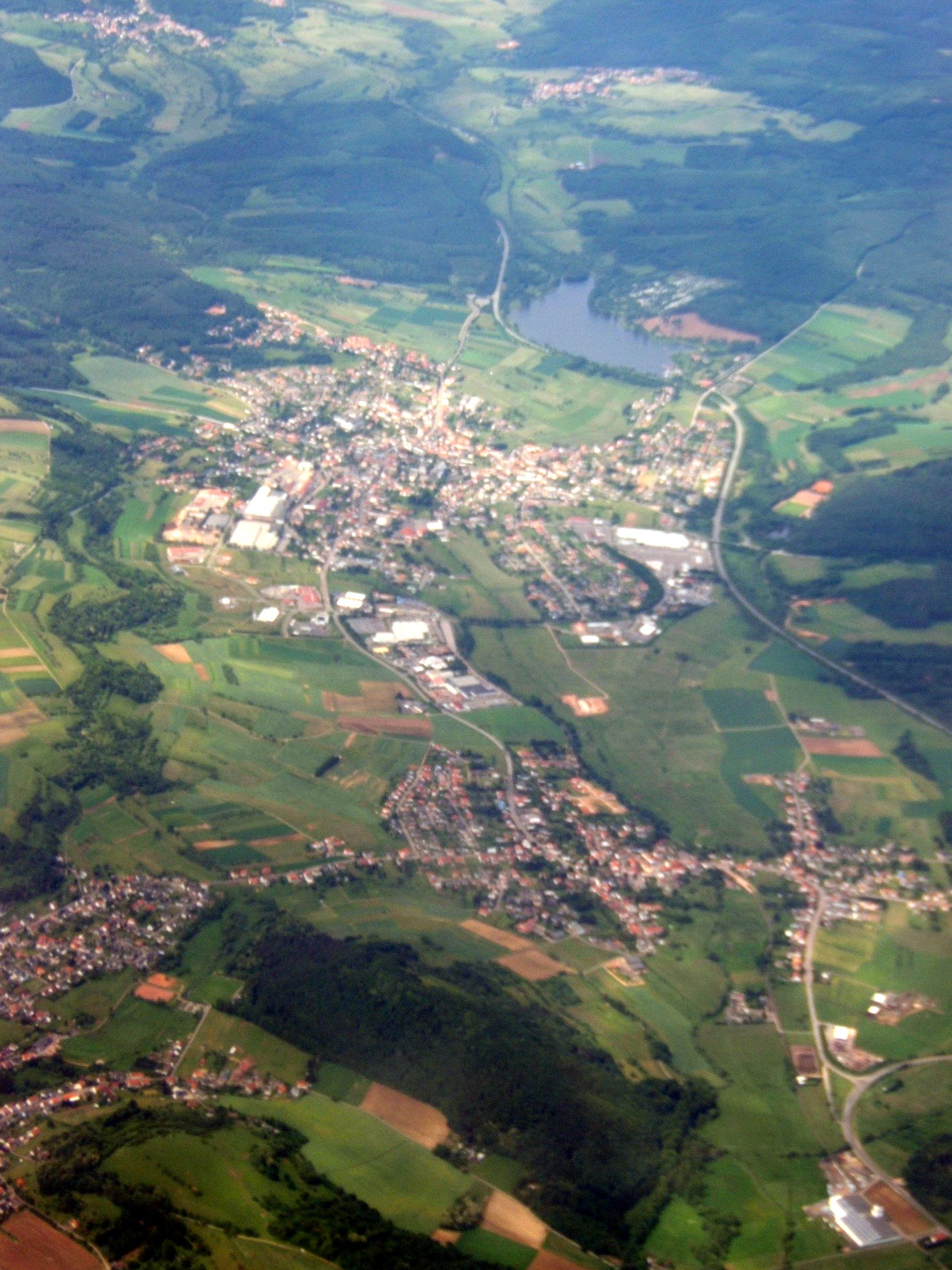 Aerial view of Losheim am See, Saarland, Germany (center). Below is Niederlosheim and Wahlen (left of Niederlosheim)